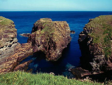 The Brough of Deerness (East Coast The Mainland Orkney) original copyright 2003-2006 Team SchottlandPortal / Wolfgang Schlick (aka Islandhopper) shot taken in 2003 larger versions published before from the authors archive Islandhopper 14:35, 30 July 2006 (UTC)